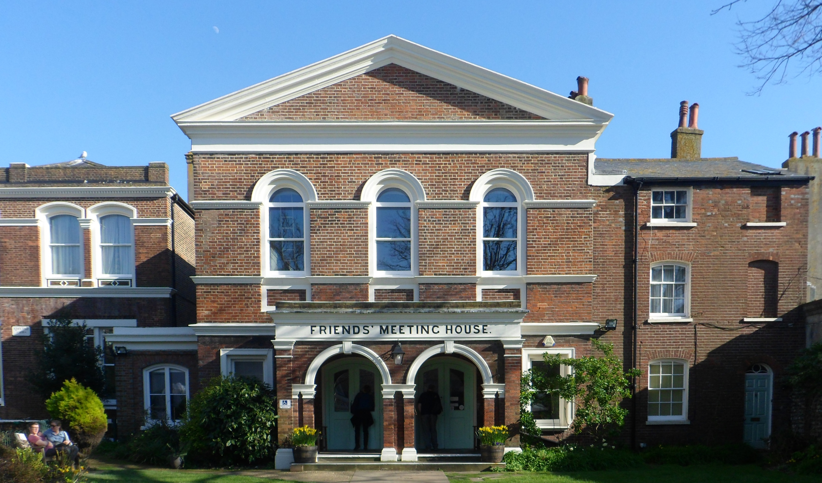 Friends Meeting House, Prince Albert Street, The Lanes, Brighton, City of Brighton and Hove, England.